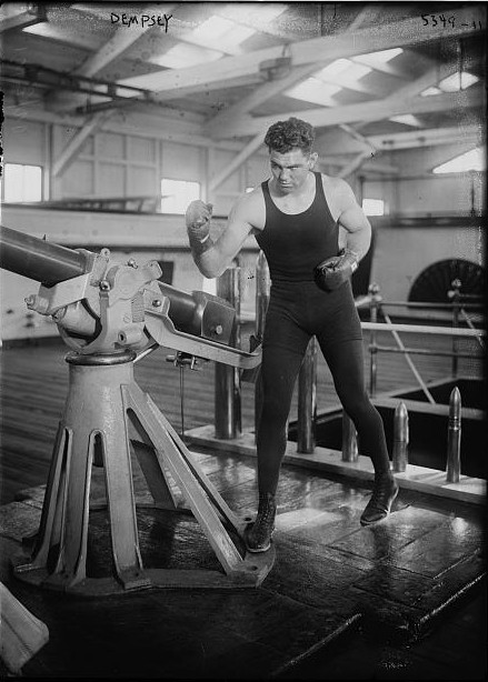 Jack Dempsey, American boxer